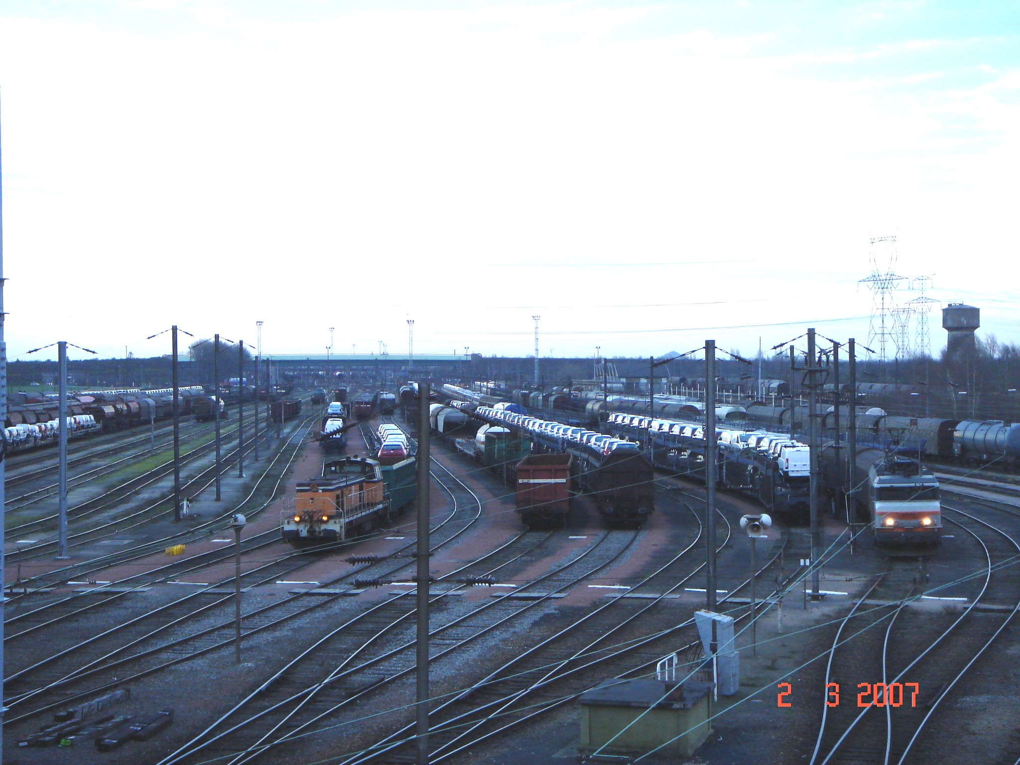 Somain gare de triage - Google Maps - Google Earth